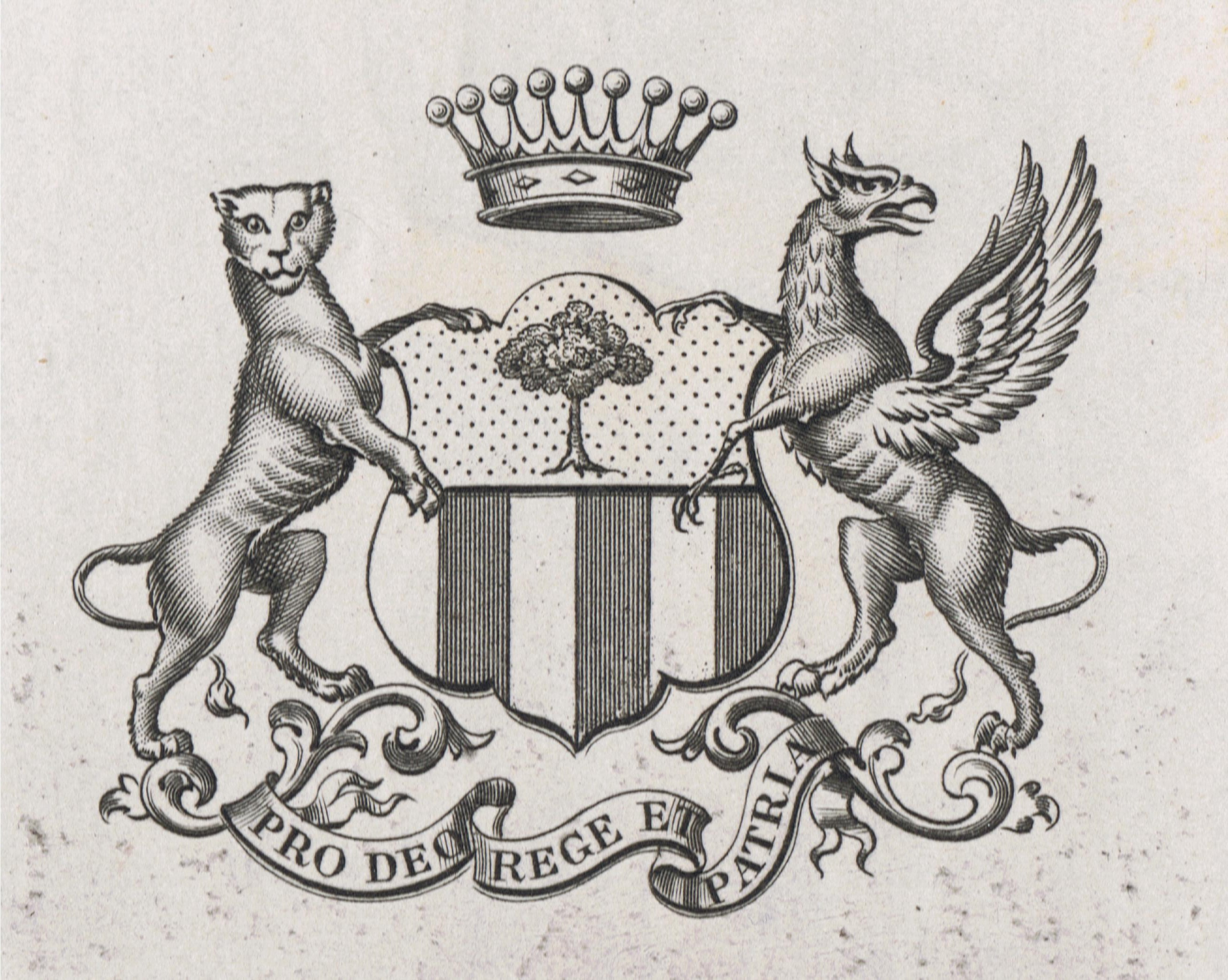 Scan (by me, R. de Salis, Rodolph (talk) 19:20, 6 October 2015 (UTC)) of the comital arms of De Salis, late nineteenth or early 20th century bookplate, (of Cecil De Salis).